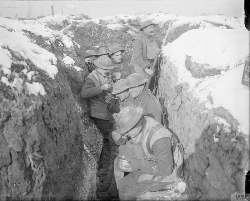 The British Army on the Western Front, 1914-1918 Troops of the 6th Battalion, Queen's Royal Regiment (West Surrey) eating dinner in the trenches. Arras, March 1917.